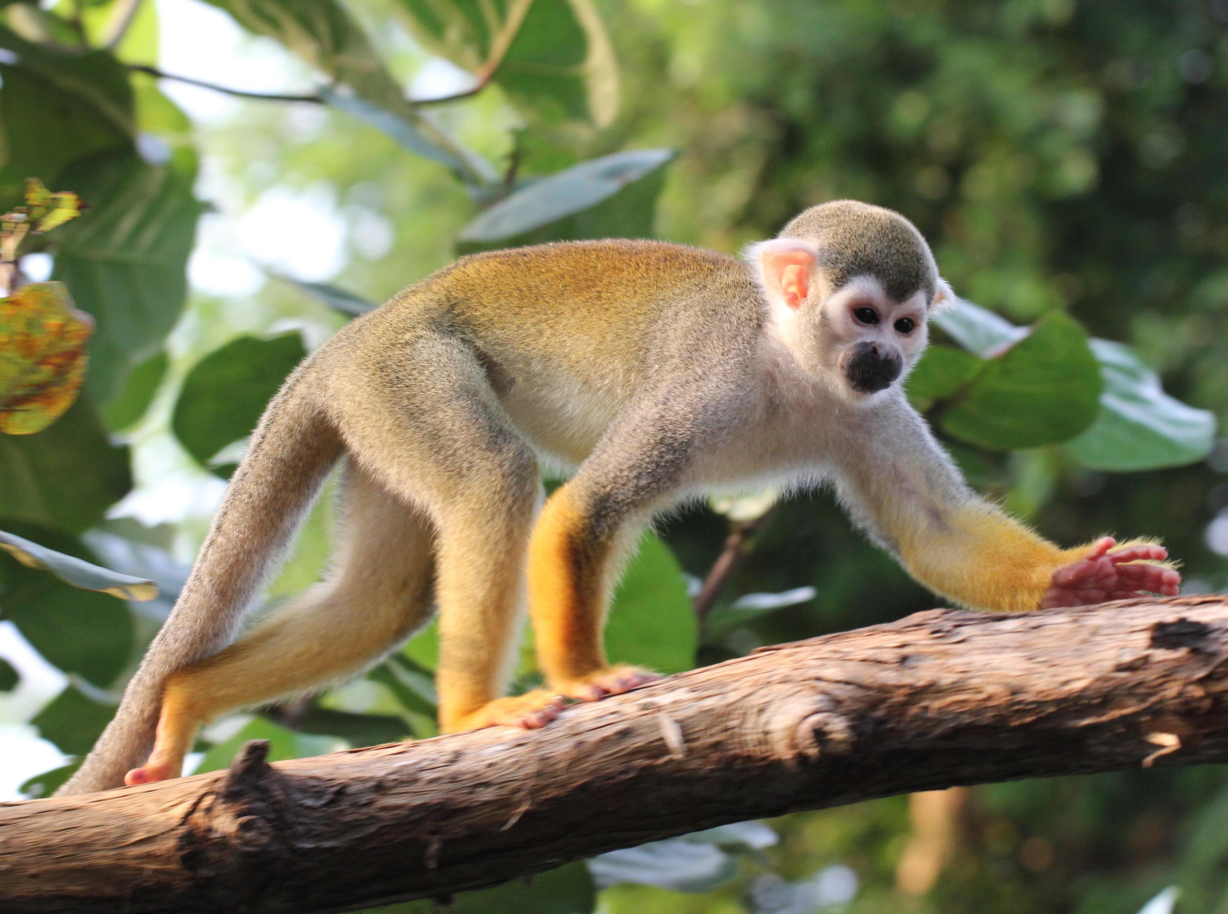 This is a picture of Saimiri sciureus (Common squirrel monkey). For more pictures visit